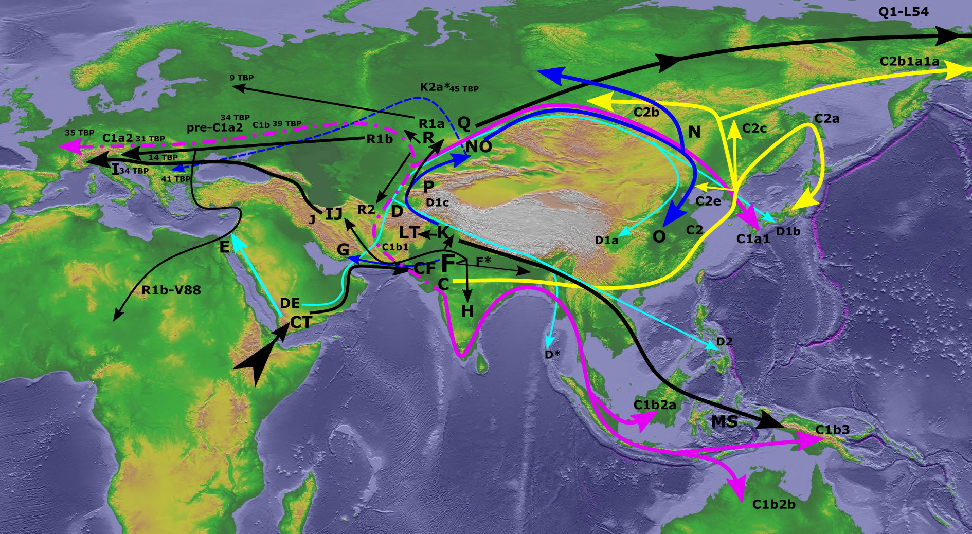 The distribution of Y-haplogroups in the Paleolithic. Reconstructed on the basis of the modern distribution of Y-haplogroups, ancient DNA data, sites of men in the Paleolithic, physical terrain, paleoclimate and suitability of areas for life in LGP.